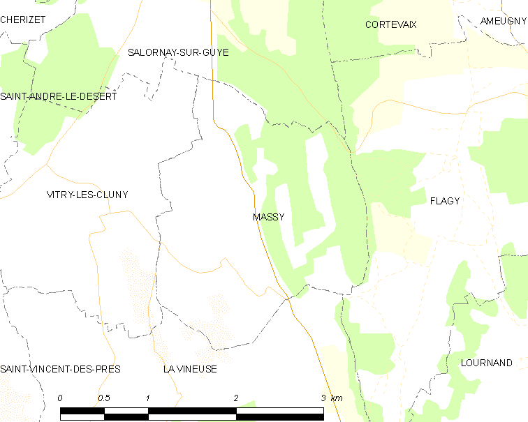 Map of French municipality